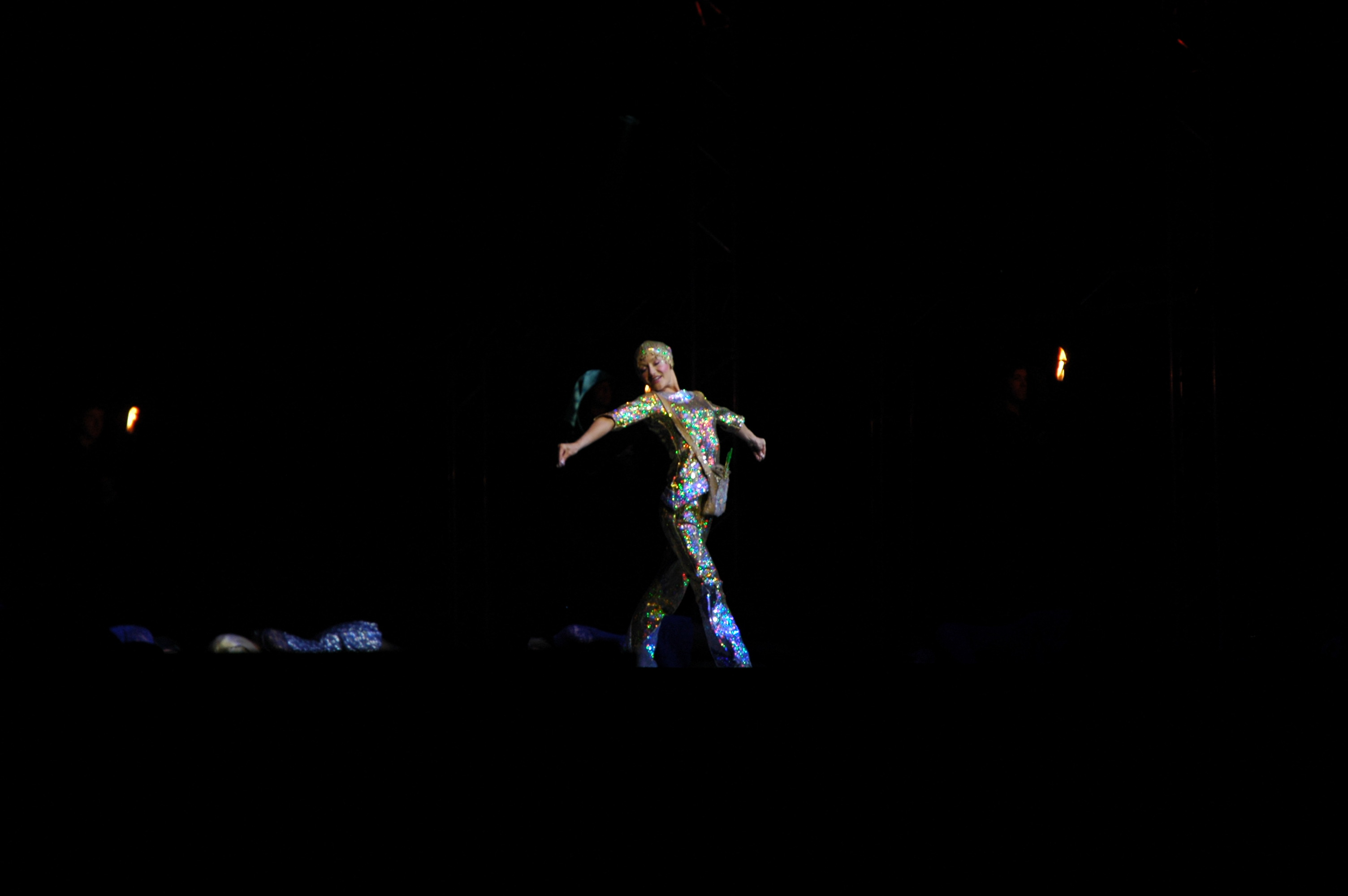 "Lord of the Dance" show of Michael Flatley, part 1 "Cry Of The Celts" with "The Spirit".